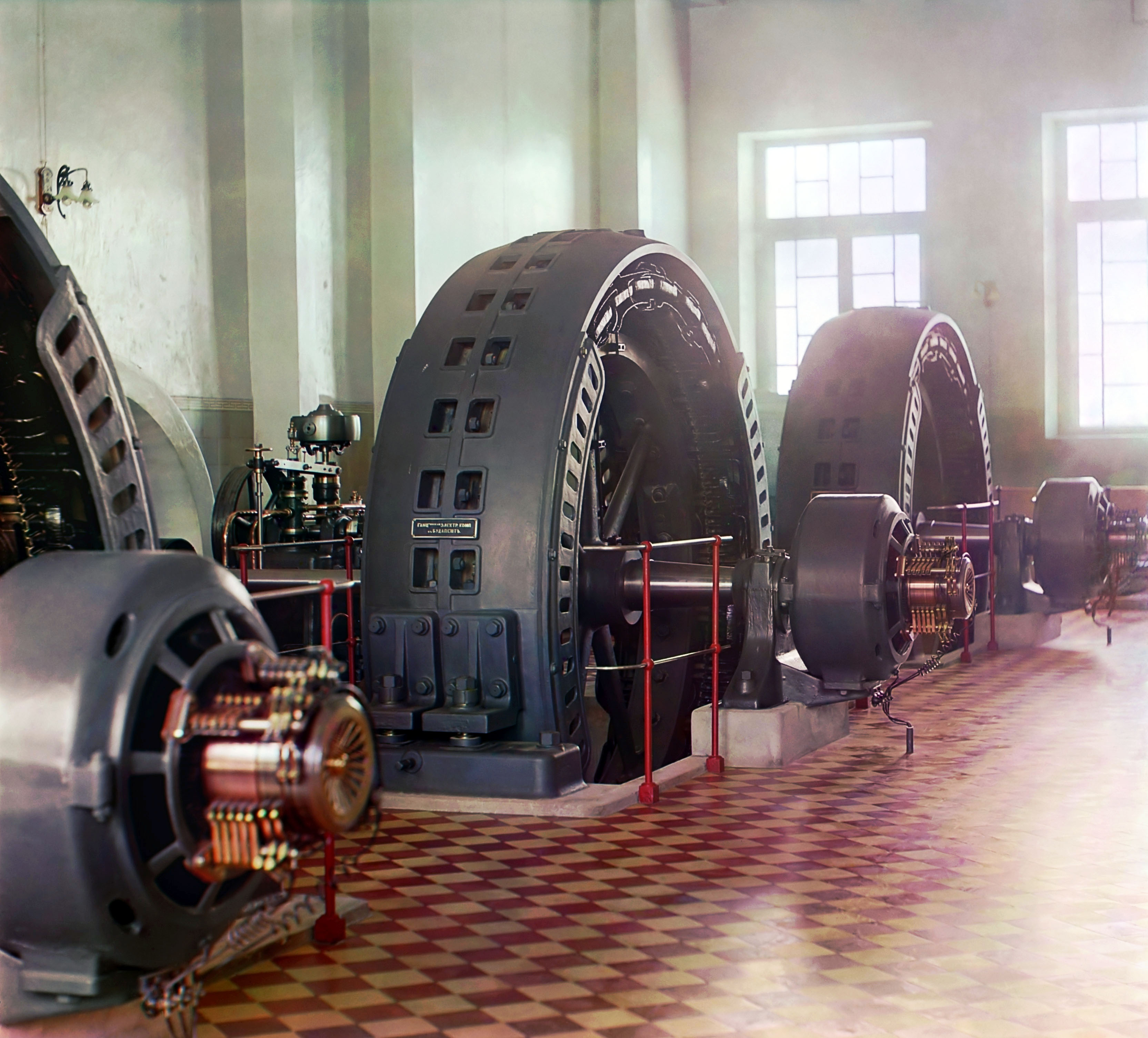 Original Description: Alternators made in Budapest, Hungary, in the power generating hall of a hydroelectric station in Iolotan on the Murghab River. This was the Hindu Kush Hydro Power Plant, in today's Turkmenistan, the largest hydro power plant of Russian Empire (built 1909) The plate reads "Ганц. электр[отехническіе] комп[аніи] въ Будапештѣ" - The Ganz Electrical Company / Budapest.